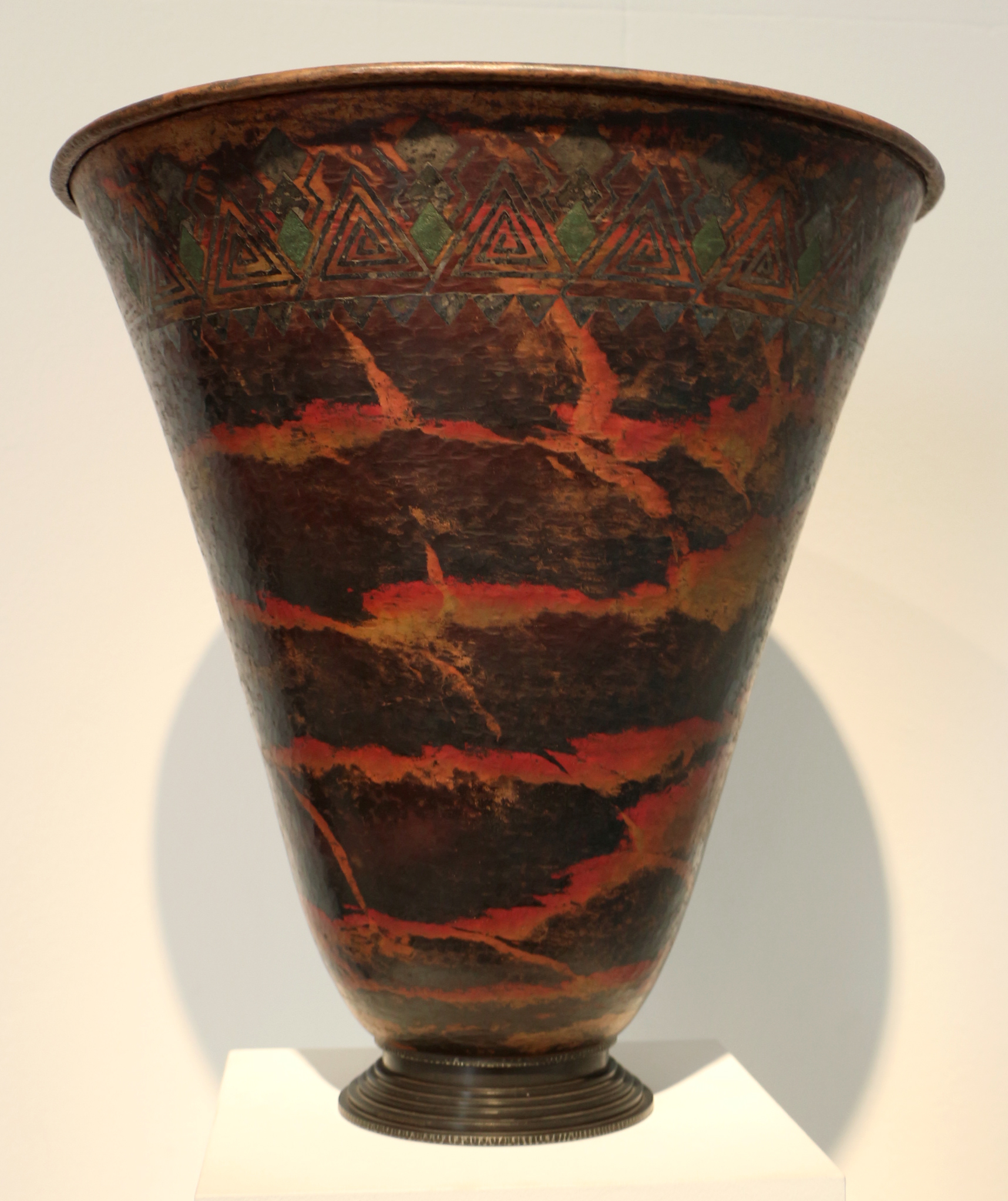 Collections of the Musée d'Art Moderne de la Ville de Paris